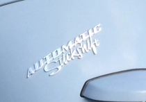 1968 Volkswagen Beetle 1500 Automatic StickShift Badge